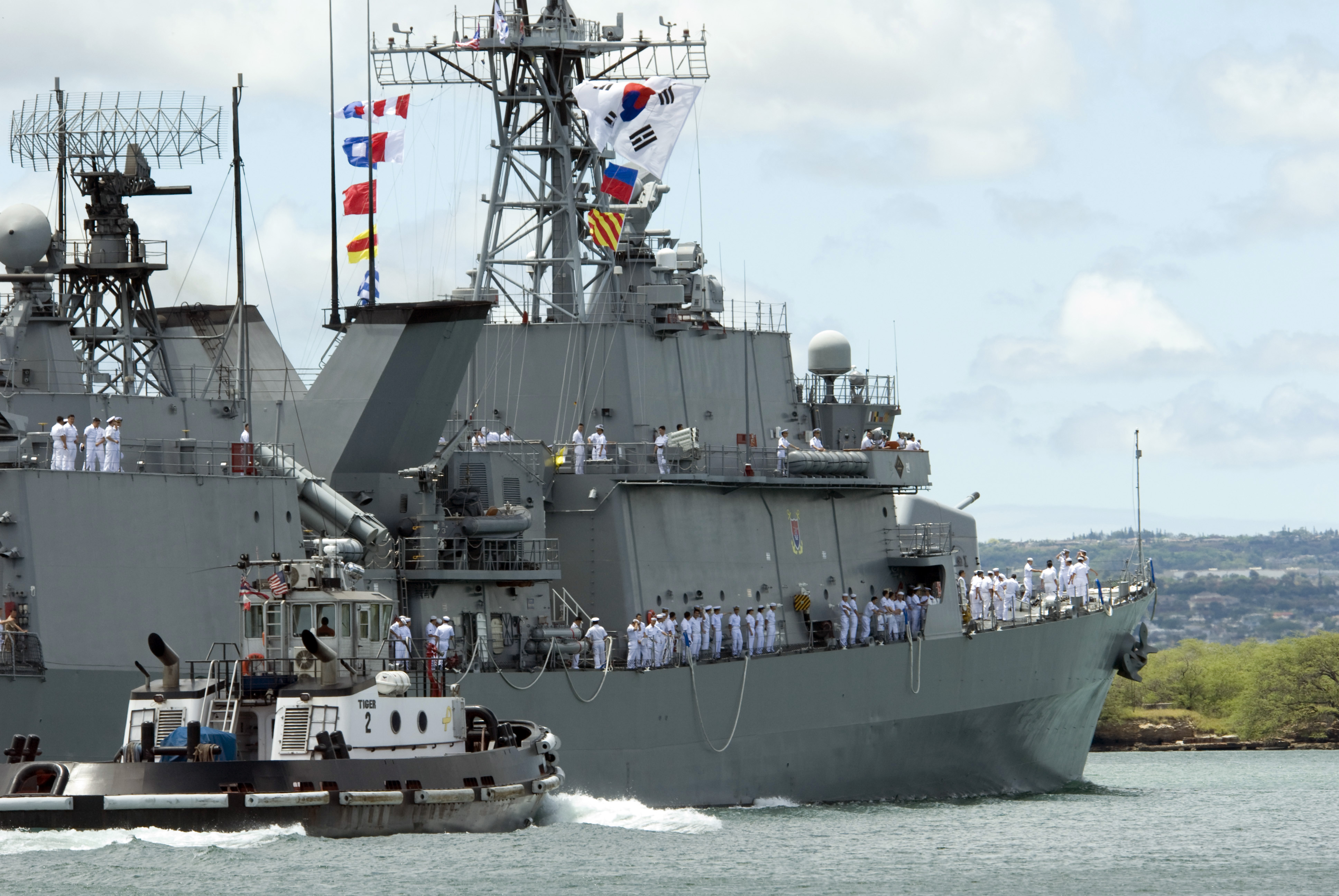 080624-N-9671T-189 PEARL HARBOR, Hawaii (June 24, 2008) The Republic of Korea Ship (ROKS) Yang Monchoon (DDH 973) is escorted by a U.S. Navy tugboat as it enters Pearl Harbor prior to the Rim of the Pacific (RIMPAC) 2008 Exercise. RIMPAC, the worldÕs largest multinational exercise, is scheduled biennially by U.S. Pacific Fleet and takes place in the Hawaiian operating area during June 29 - July 31. Participants include Australia, Canada, Chile, Japan, Netherlands, Peru, Republic of Korea, Singapore, United Kingdom and the U.S. India, Colombia, Mexico, and Russia are scheduled to send observers. U.S. Navy photo by Mass Communication Specialist 2nd Class Kenneth G. Takada (Released)